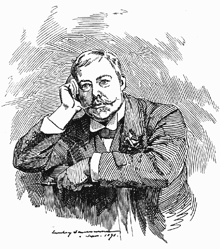 Self portrait of Edward Linley Sambourne. Dated 1891, scanned from The History of "Punch", by M.H. Spielmann, Cassell & Company Ltd. 1895, page 531.